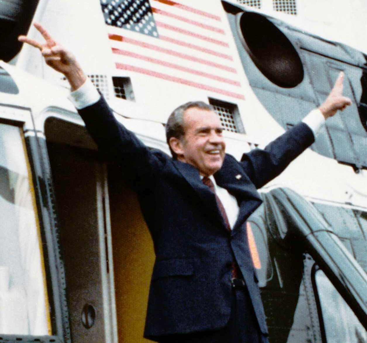 Richard Nixon boarding Army One upon his departure from the White House after resigning the office of President of the United States following the Watergate Scandal in 1974.